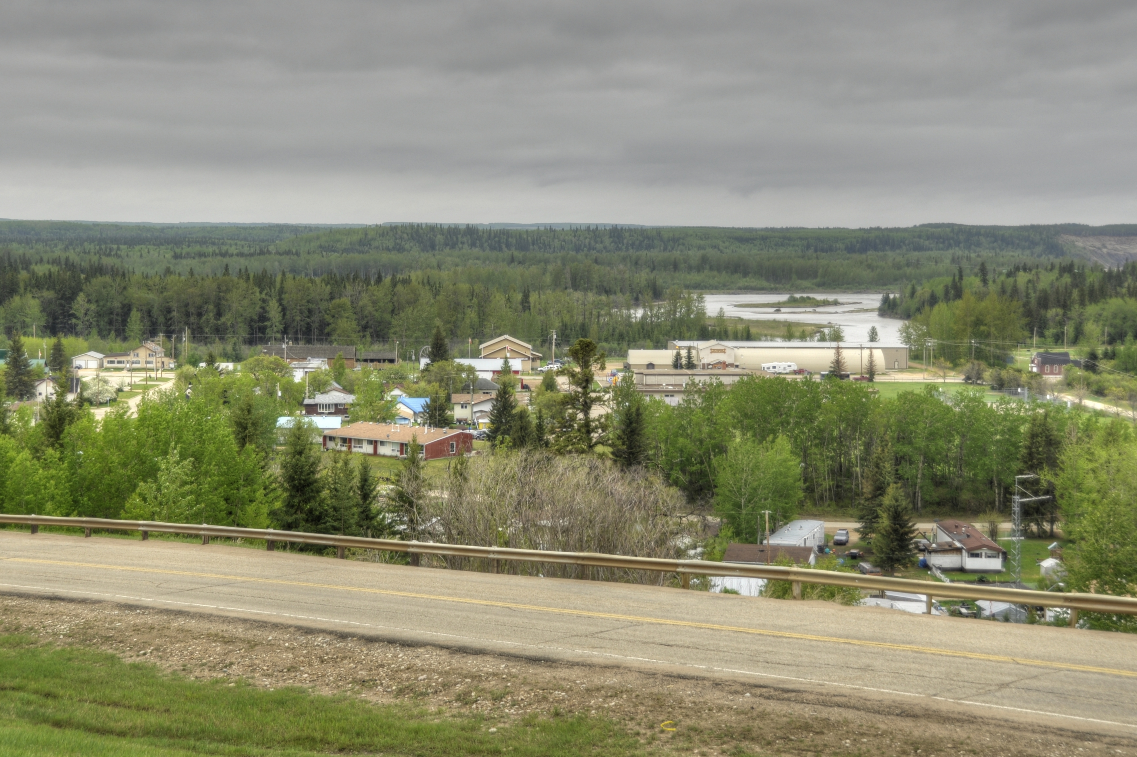 Ft Assiniboine from the hill on Alberta Highway 661